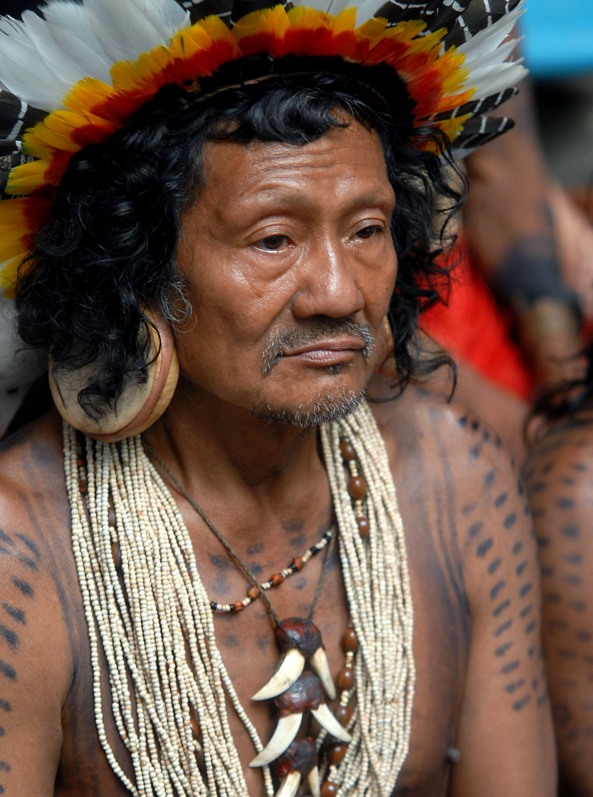 Rikbaktsa man at Brazil's Indigenous Games (note: there's no such thing as Rikhaksta, which ABr writes)